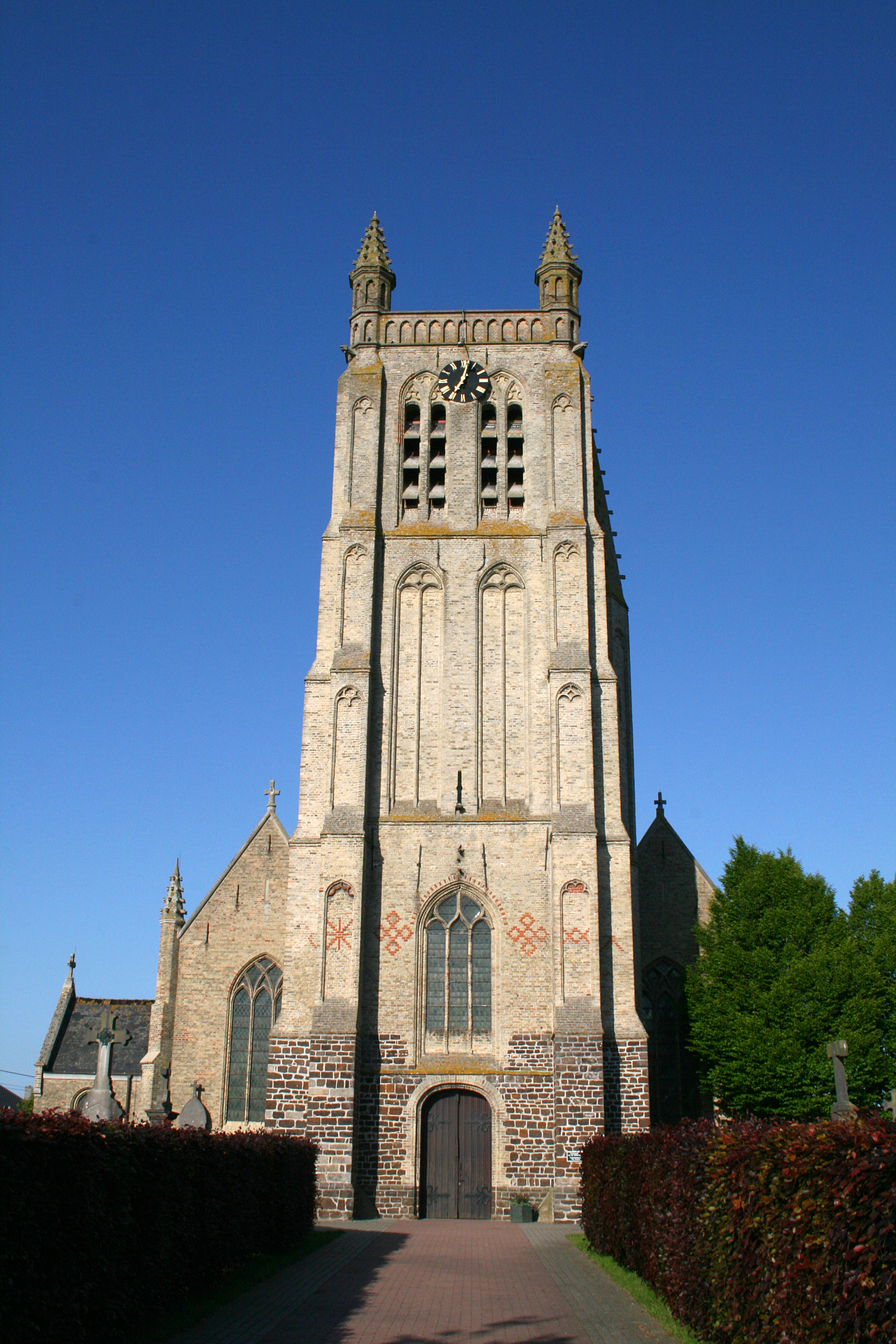 Woesten Belgium), the Saint Rictrudis' Church - Tower of the 15th century.